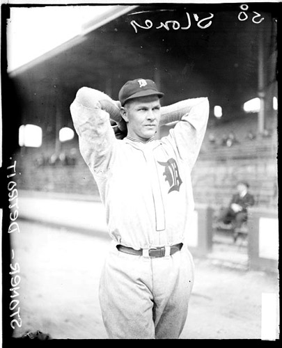 Photograph of Lil Stoner of the Detroit Tigers at Comiskey Park